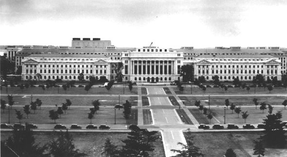 United States Department of Agriculture building in Washington, completed 1930. This photograph taken about 1934. The building is now known as the Jamie L. Whitten Federal Building.